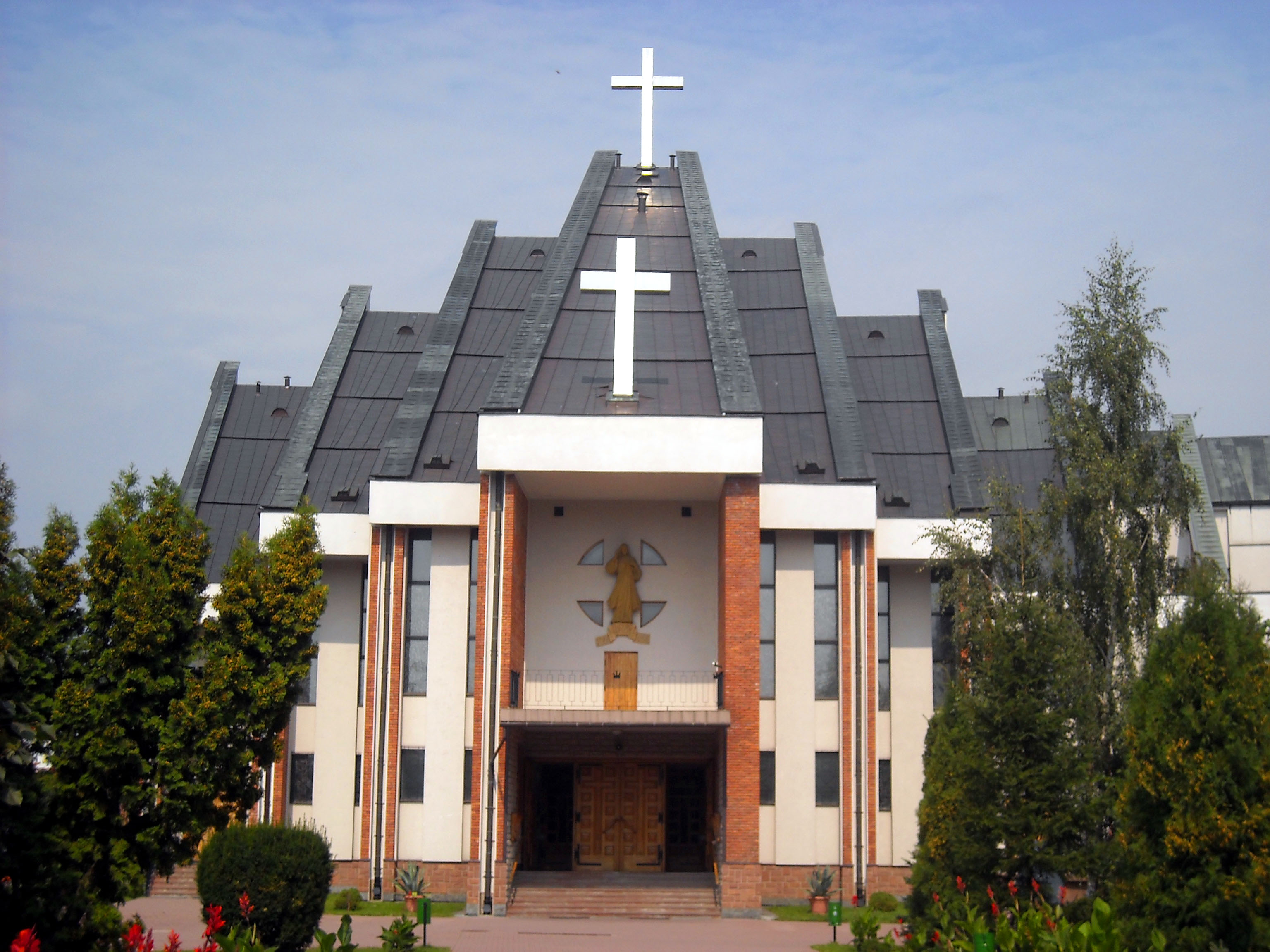 Grounds of The Catholic Church of the Mercy of God at Nałkowskich Street in the Wrotków district, Lublin (main entrance)